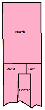 Map of Whitby, Ontario's wards